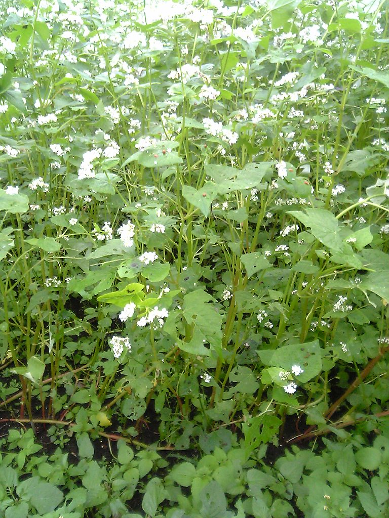 Buckwheat (Fagopyrum esculentum) field, Kantō region, Honshū, Japan. – Material of Buckwheat noodles are one of the cereals which can be harvested twice in 1 year. This picture was taken in the buckwheat field where it was growed up the one for the buckwheat noodles powder of autumn buckwheat noodles in the flowering time. A white flower to bloom in one side of the buckwheat field is the plant which transmits the visit of the season of spring and autumn, and it is sometimes used as season word (Kigo, 季語) of autumn in Japan.